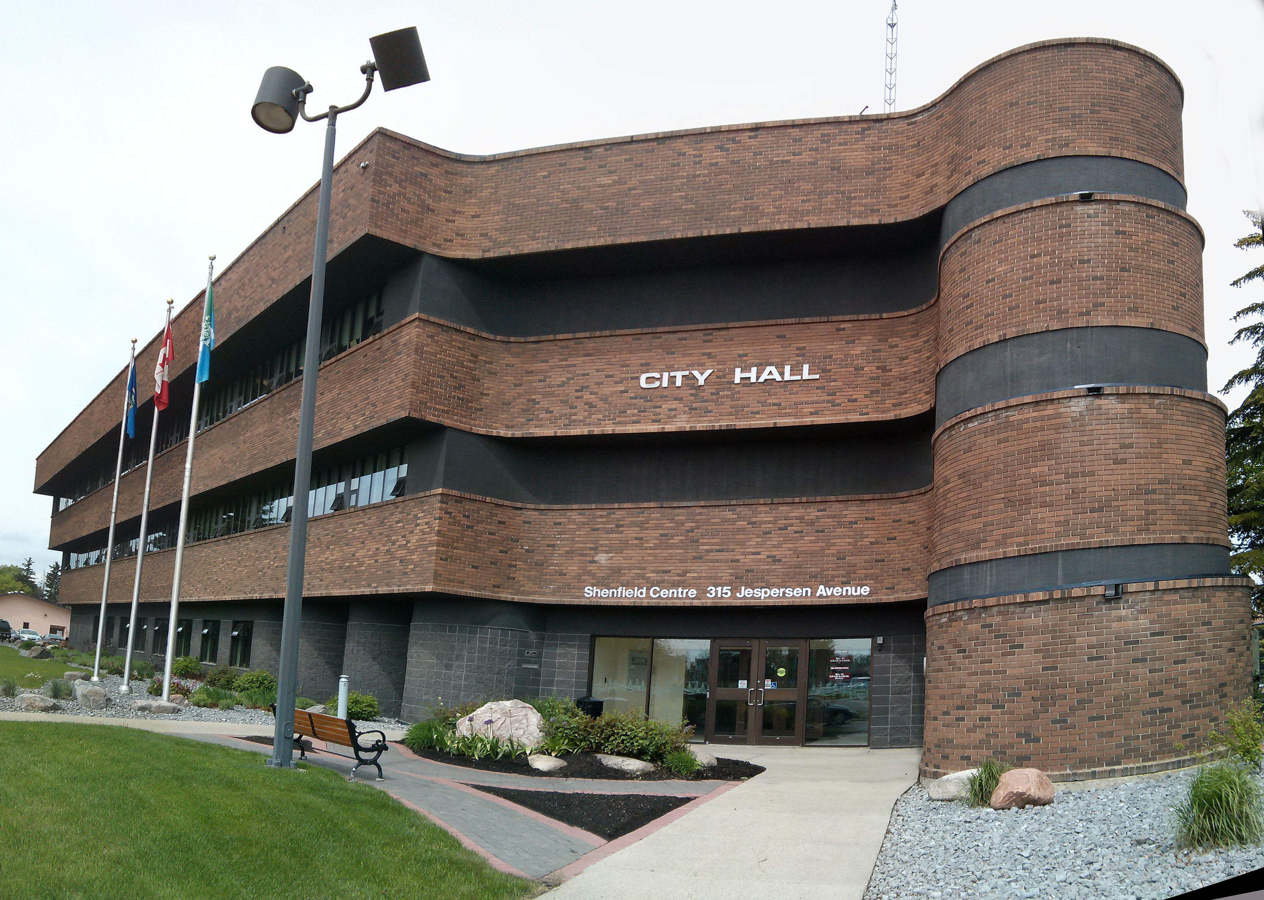 Spruce Grove City Hall, designed by architect Douglas Cardinal.